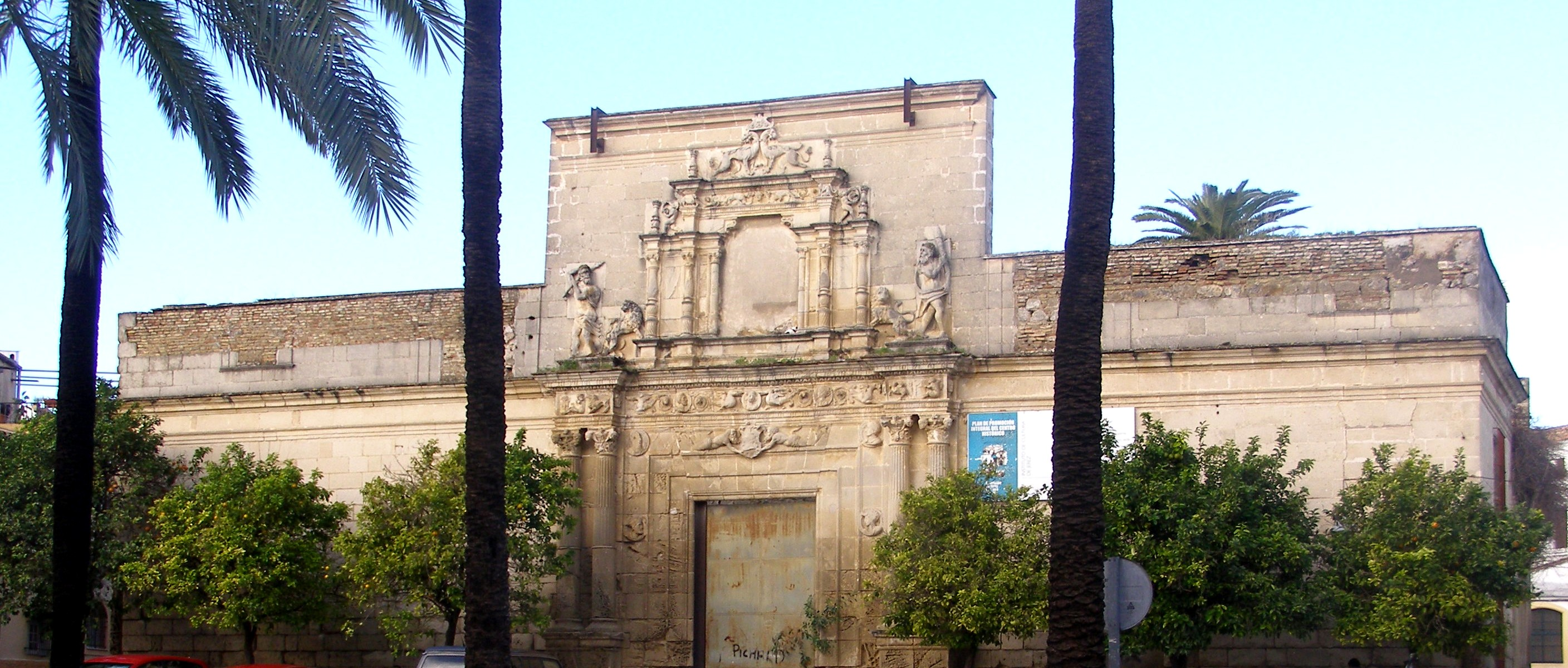 Palace Riquelme Jerez de la Frontera